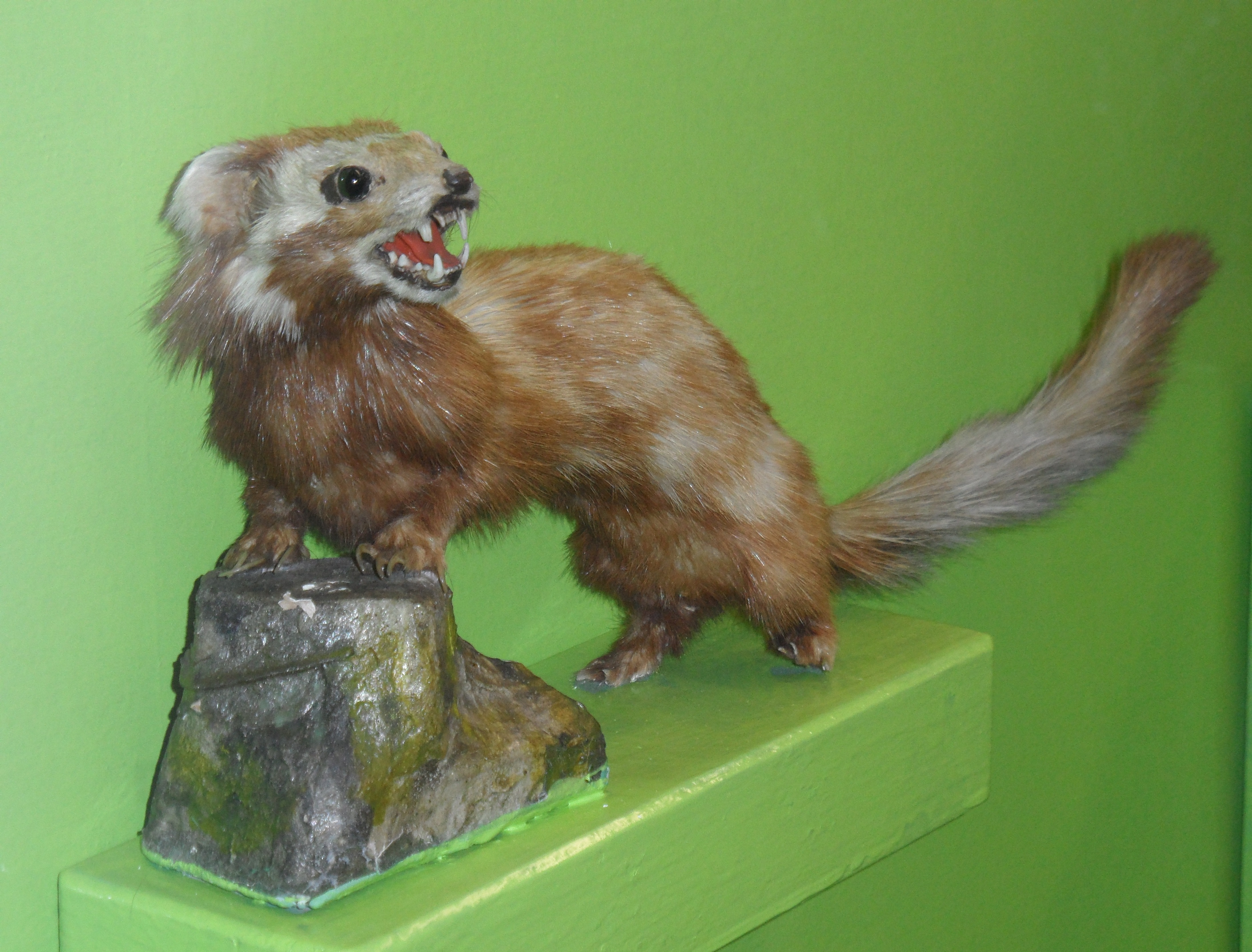 Syrian marbled polecat (Vormela peregusna syriaca) on display in the Natural History Museum of Genoa